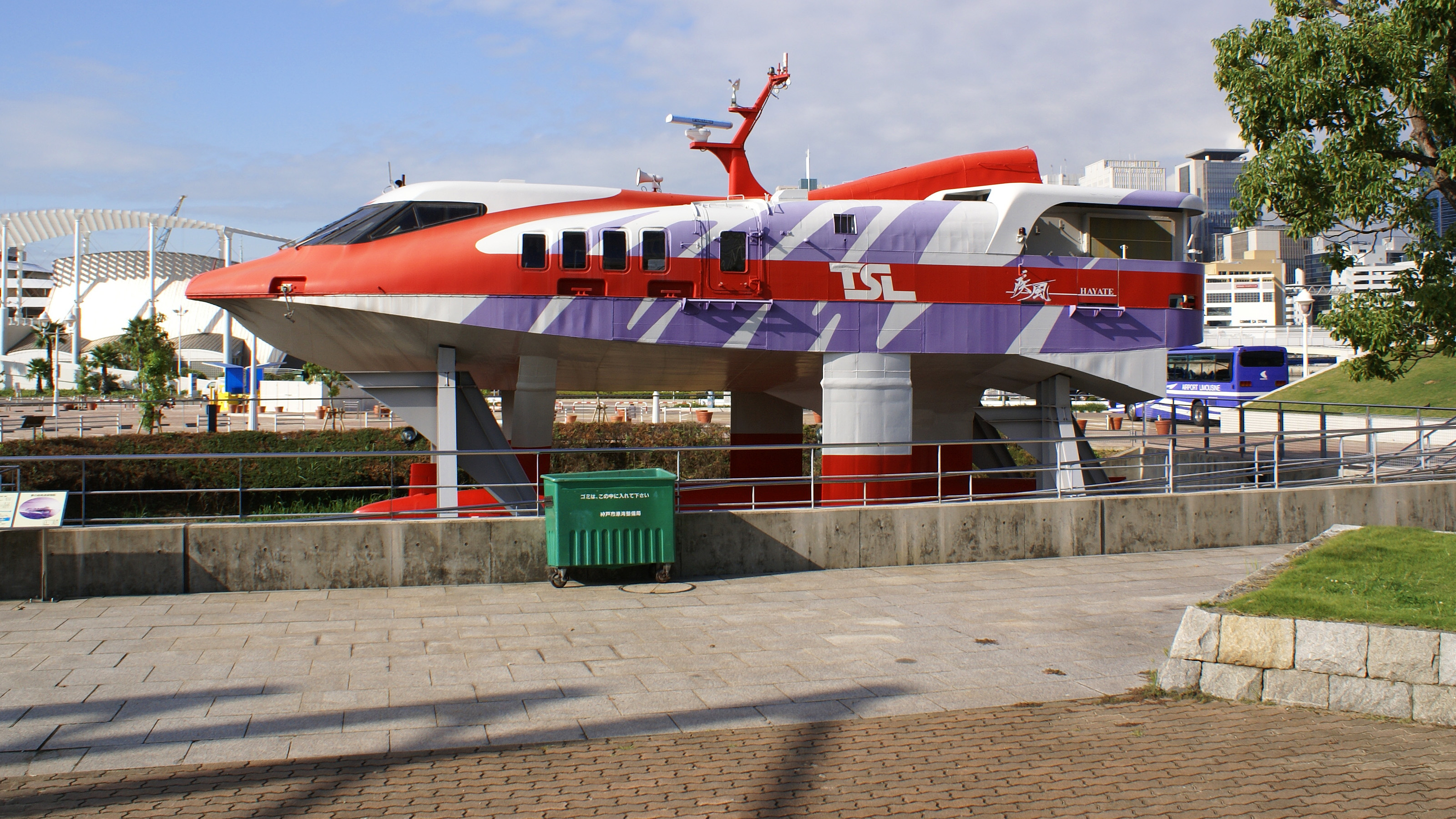 "HAYATE" of Kobe Maritime Museum in Kobe, Hyogo, Japan